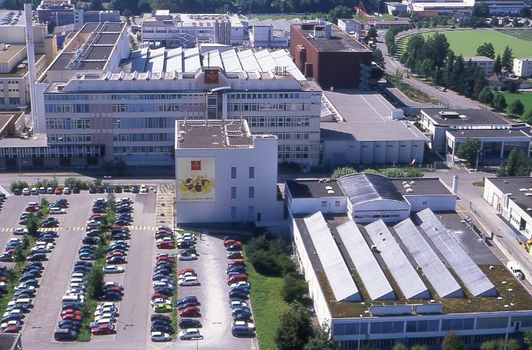 Chocolat Frey headquarter in Buchs, Aargau, Switzerland